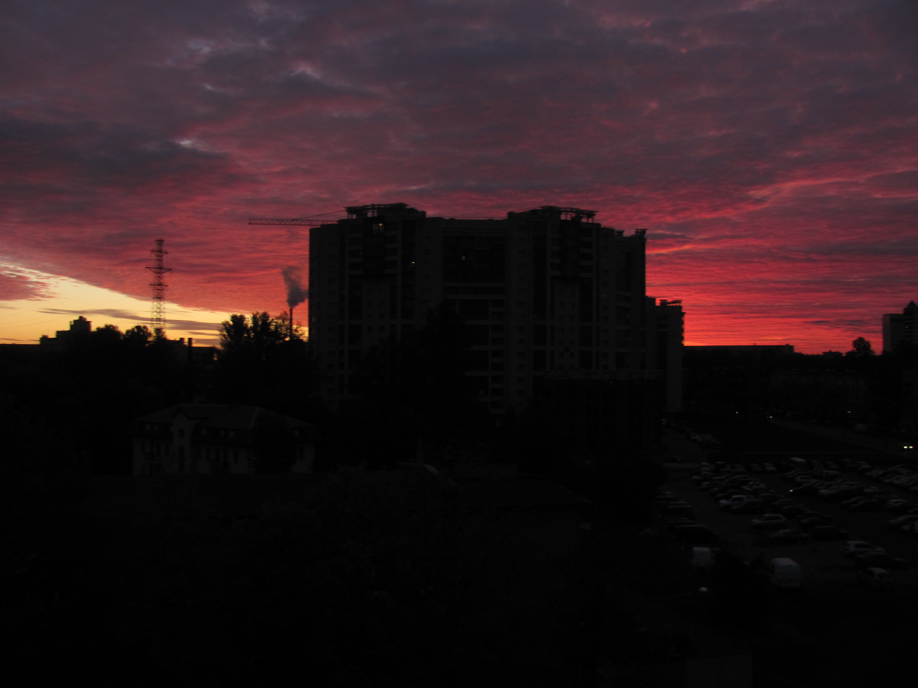 Dawn